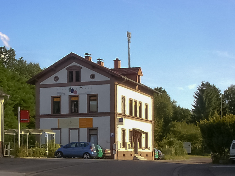 Rieschweiler train station